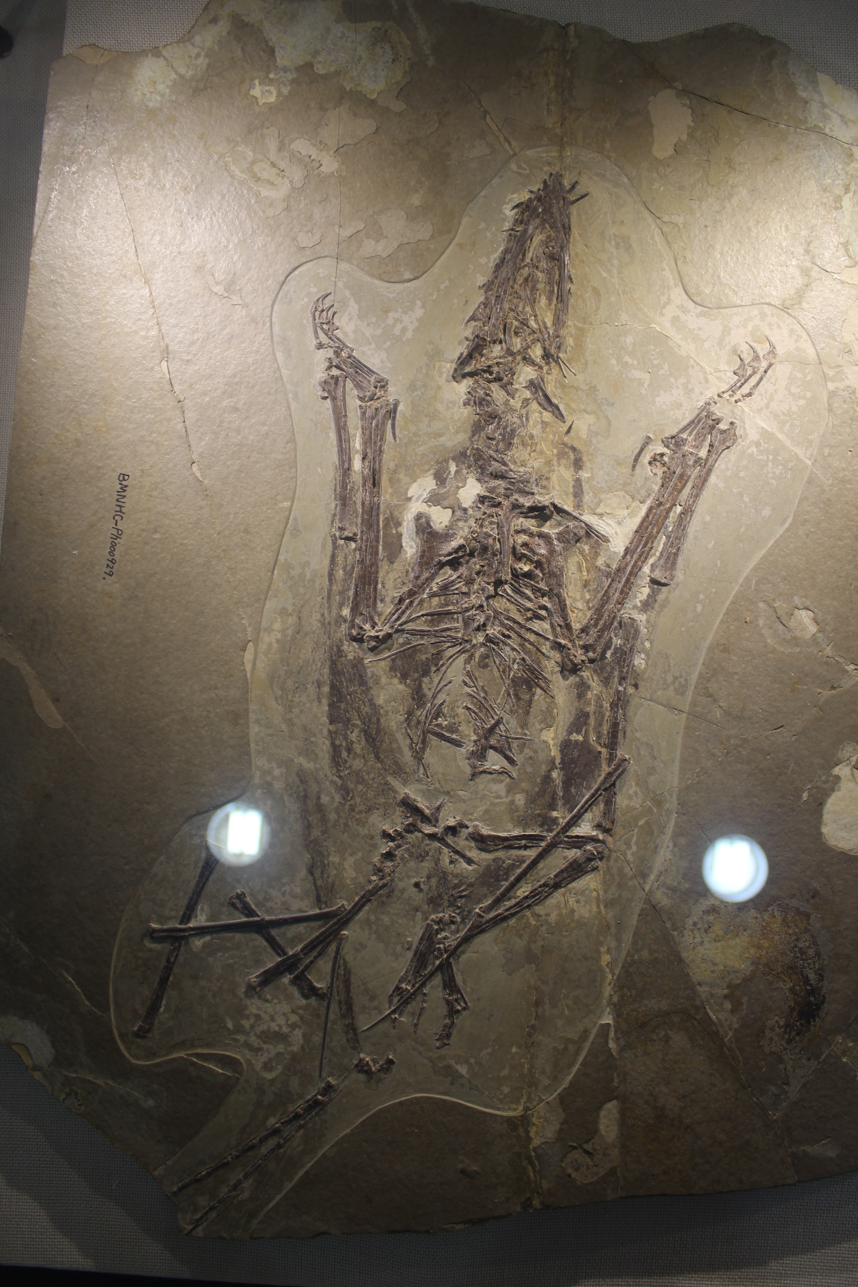 Fossil specimen of Fenghuangopterus on display at the Beijing Museum of Natural History.